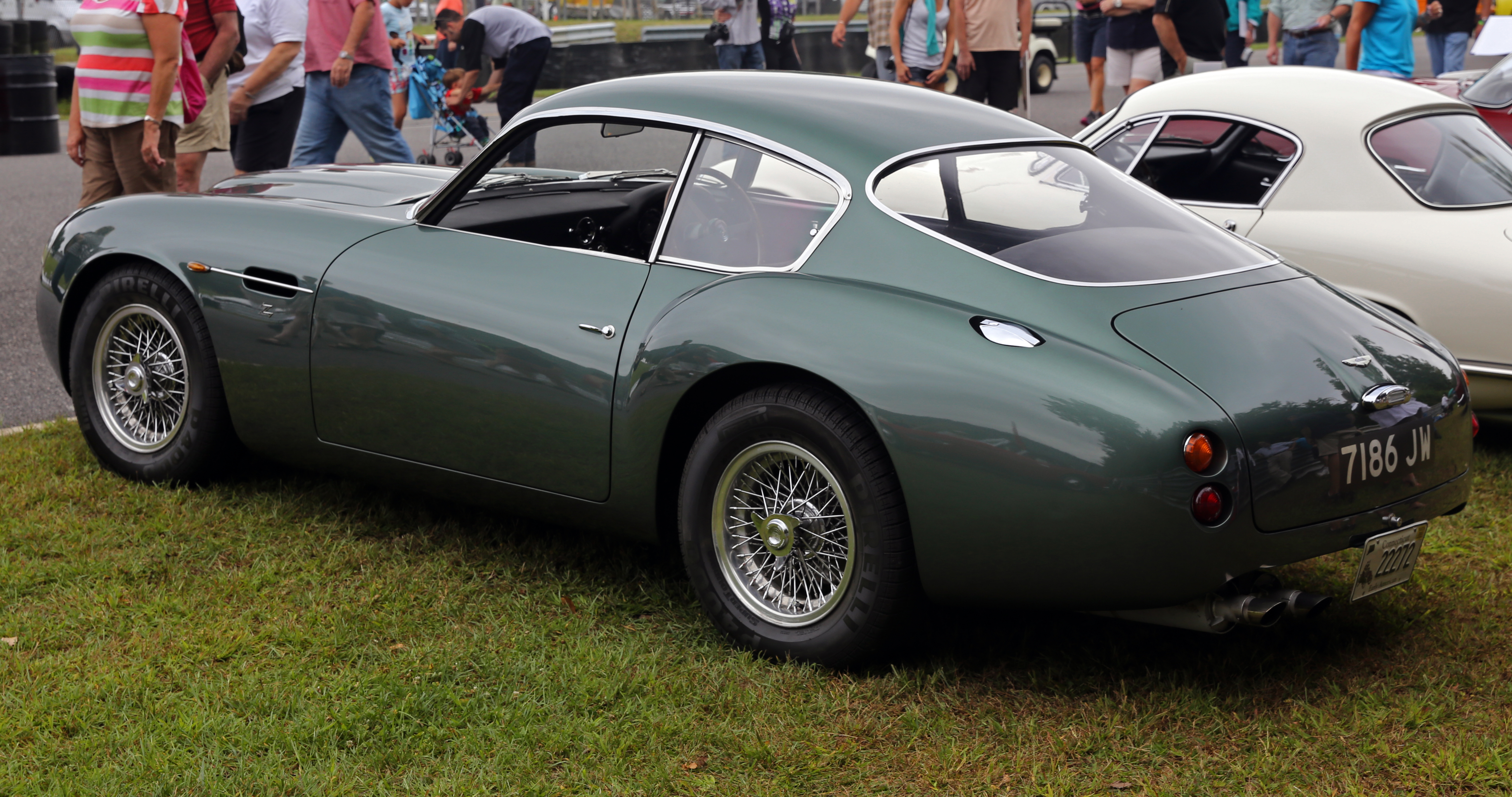 A "1961" Aston Martin DB4 GT Zagato, 7186 JW, belonging to Barney Hallingby and displayed at the 2014 Lime Rock Concours d'Élegance. This is one of the four Sanction II cars finished in 1991 using hitherto unassigned chassis numbers. Officially recognized as a 1961 Aston Martin; still sort of iffy in my eyes. Still, considerably better than chopping up a good DB4 to make another replica.